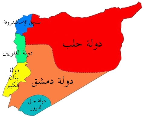 Map of the autonomous areas under the French Mandate of Syria before 1937 (specifically 1923). Based on this[1].